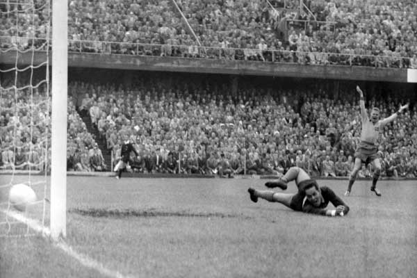 Liedholm scores against Brazil (1-0 in the final WC 1958)